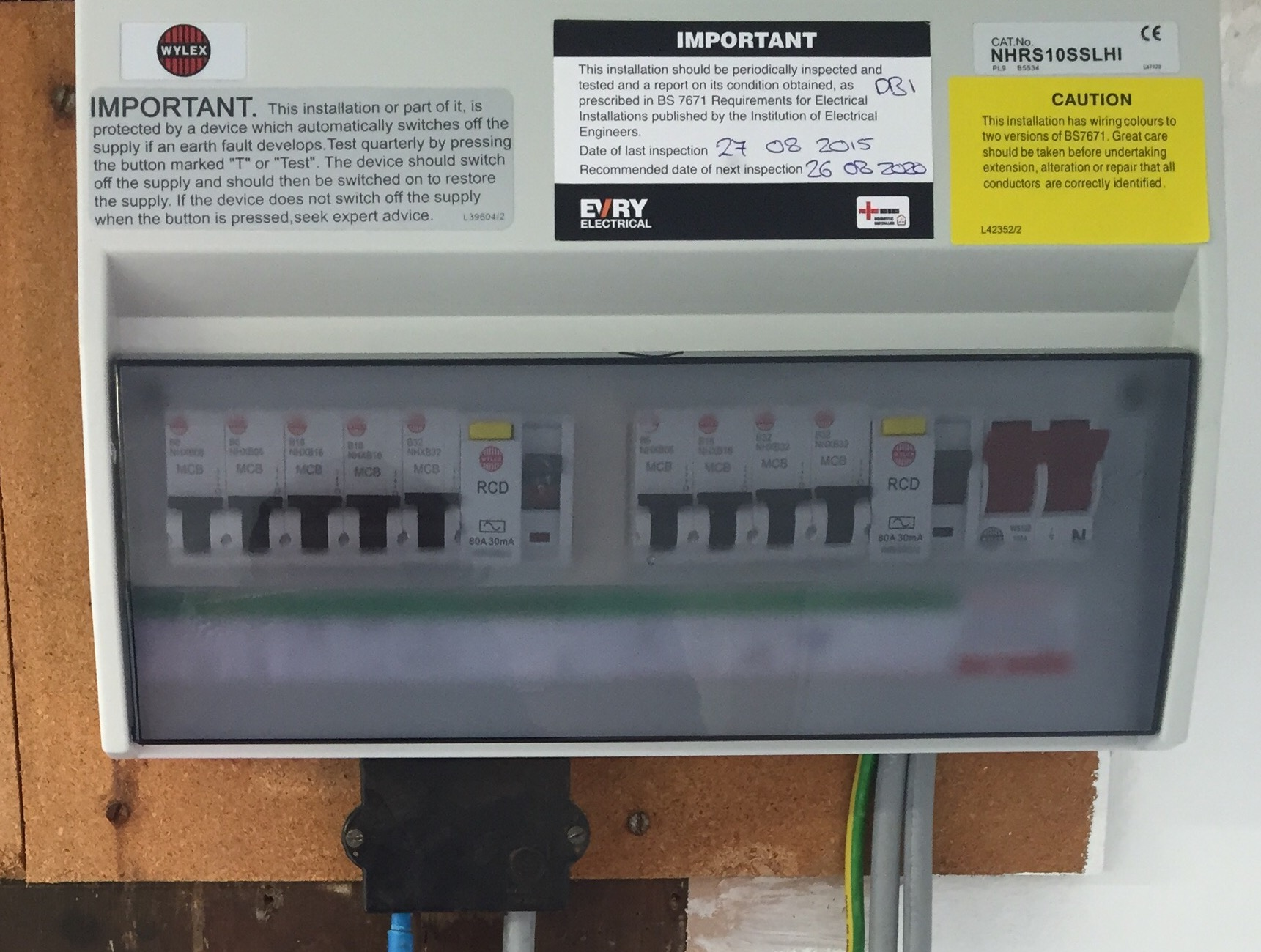 RCD Protection Consumer Dual Split-Load up to 17th edition Electrical Regulations standard BS7671.